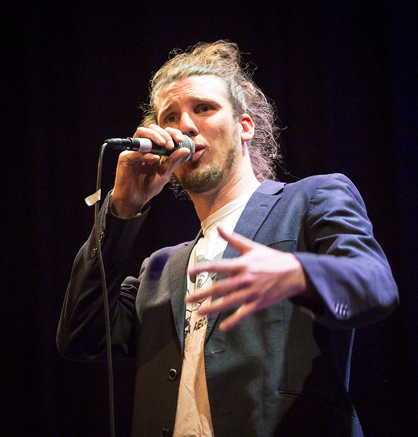 Skranglebein at the stage of Cosmopolite. The concert took place on 10. September 2016 in Oslo. This was the final concert on the last night of the SPKRBOX-festival.Lineup:Per Olav Hoff Mydske (vocal)Jens Linell (drums)Magnus Jr Larsen (double bass)Tuva Syvertsen (Hardanger fiddle)Erik Sollid (viola)Vincent Velur (organ)Steinar Ofsdal (flute)Rolf-Erik Nystrøm (saxophone)